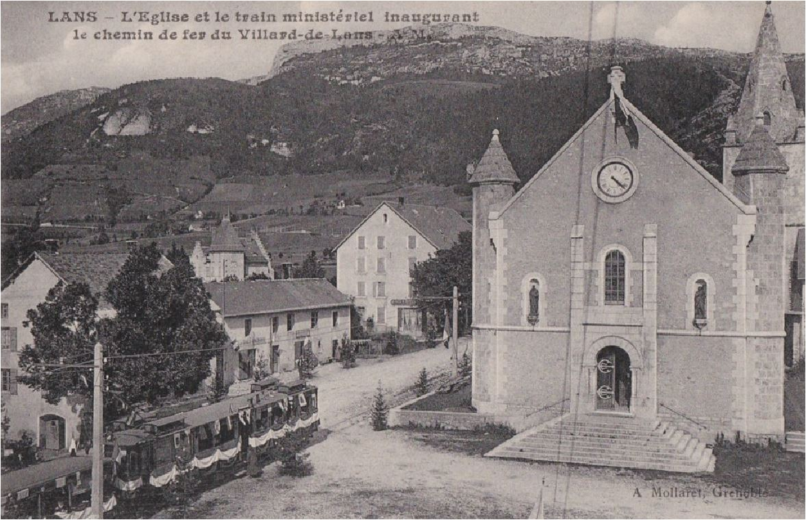 A village square with a tram and the church bedecked.